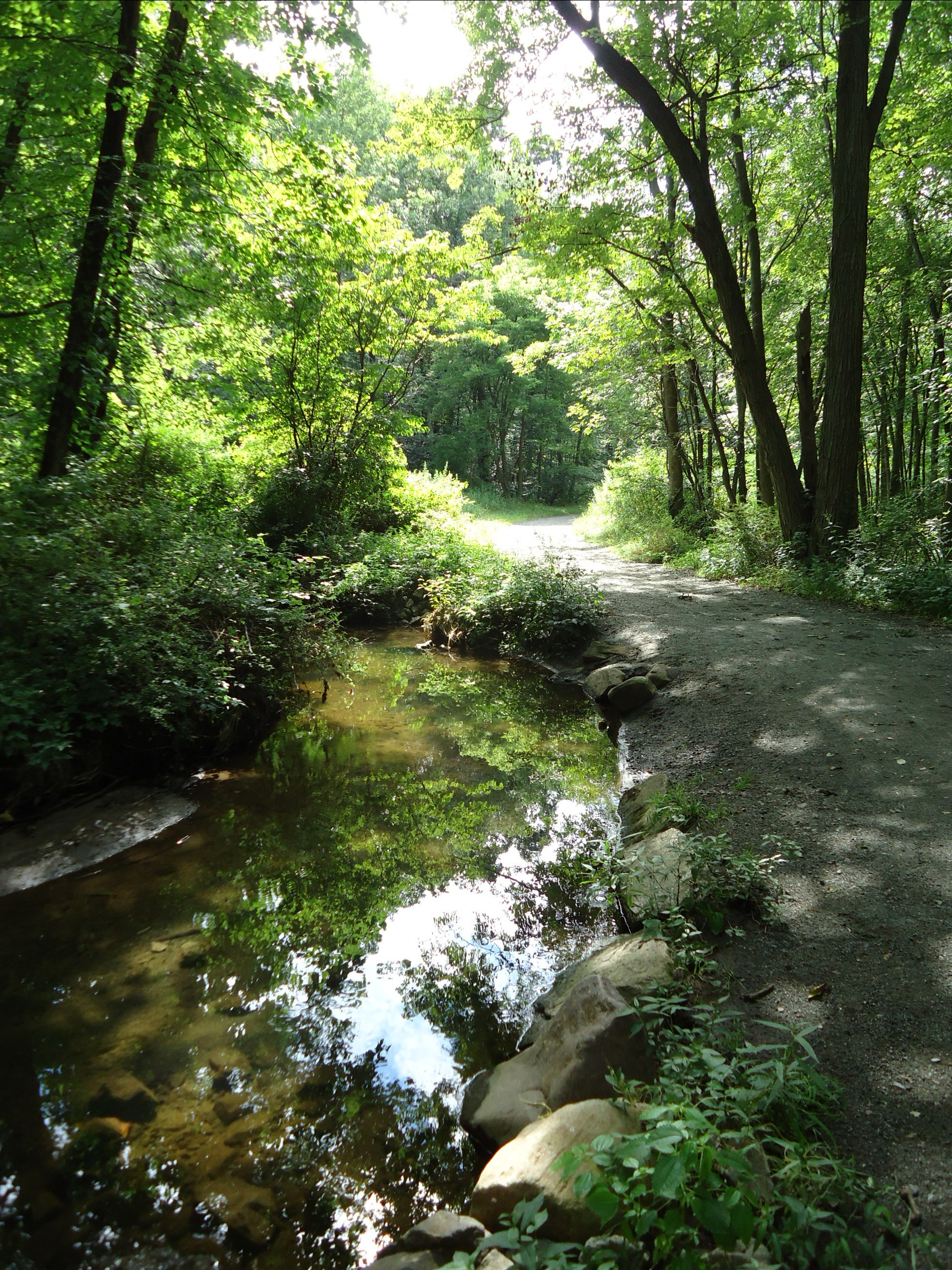 Stream meandering through the woods. The Loantaka Brook Reservation in Morris County, New Jersey, has 570 acres of nature trails for biking, jogging, horseback riding, picnics, athletic fields.